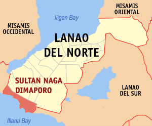 Map of the Lanao del Norte showing the location of Sultan Naga Dimaporo